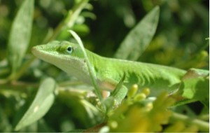 Anolis carolinensis on goldenrod, South Carolina